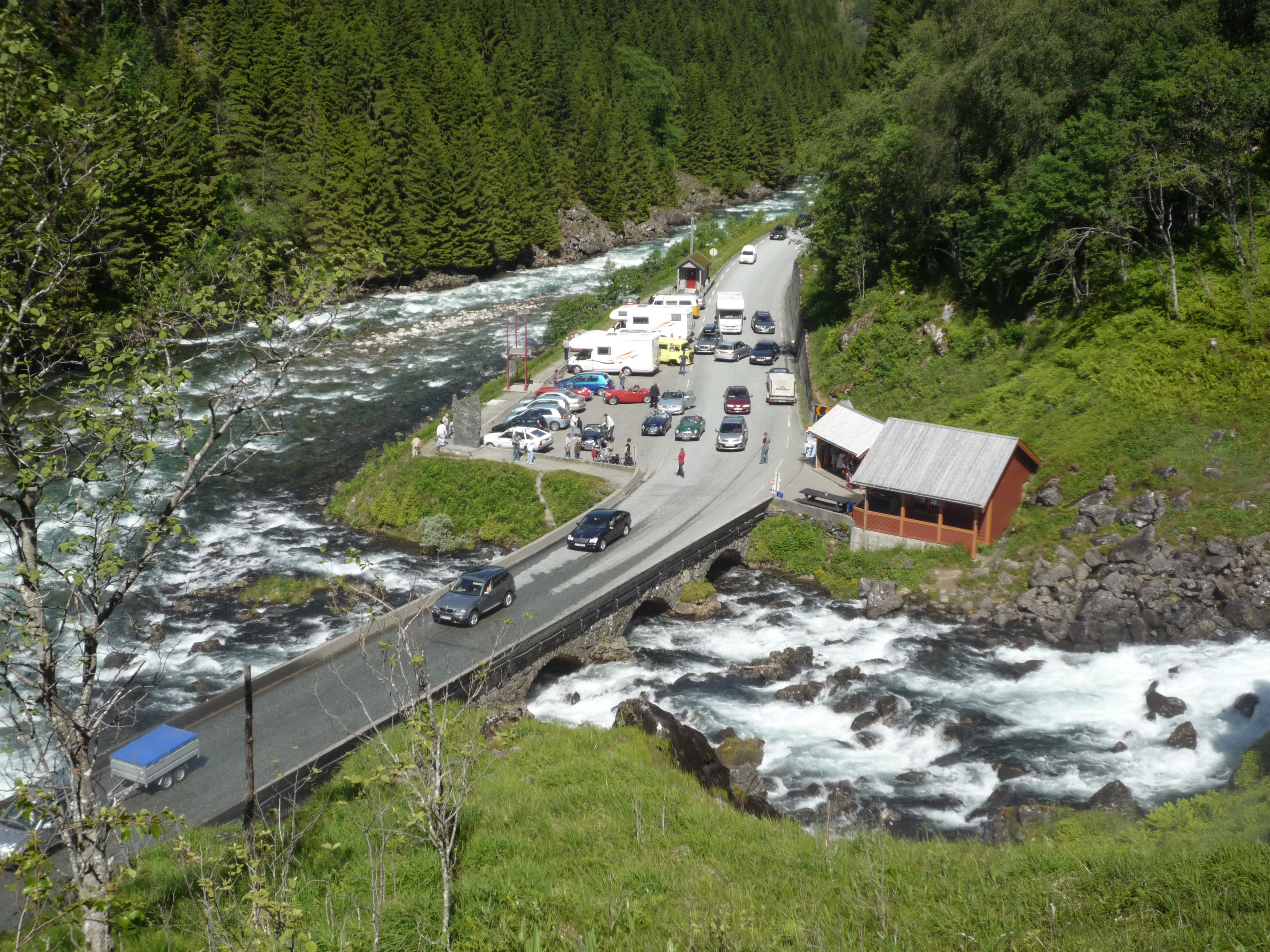 The bridge and carpark by Låtefossen waterfall in Odda, Norway. Original description: Looking down at the carpark from the veiwing point which looks over Latefoss